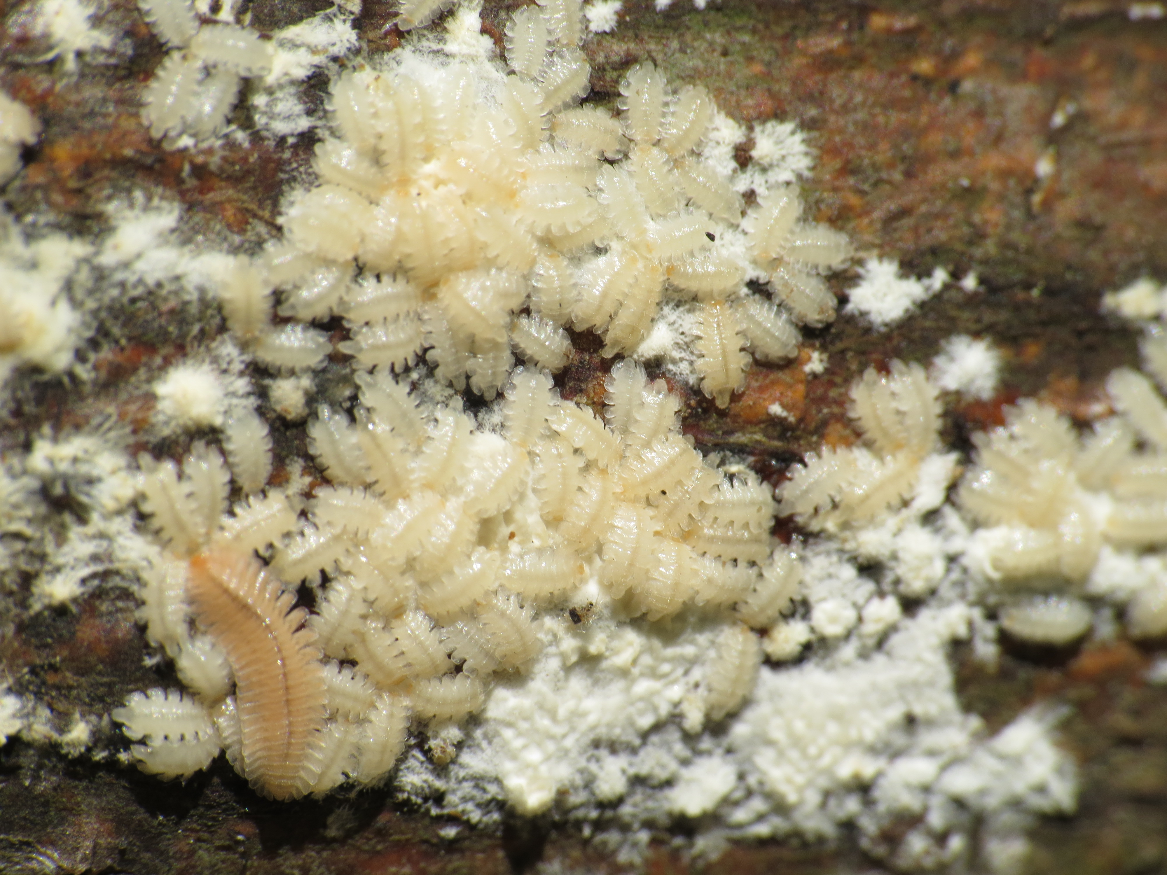 Newly hatched Brachycybe lecontii gathered around the fungi they feed on.